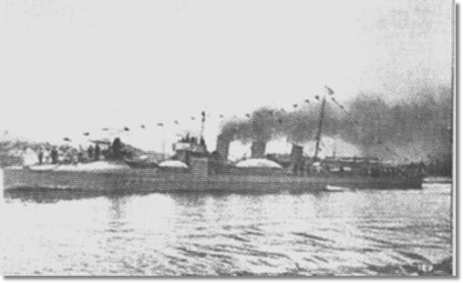 Public Domain under Greek Law